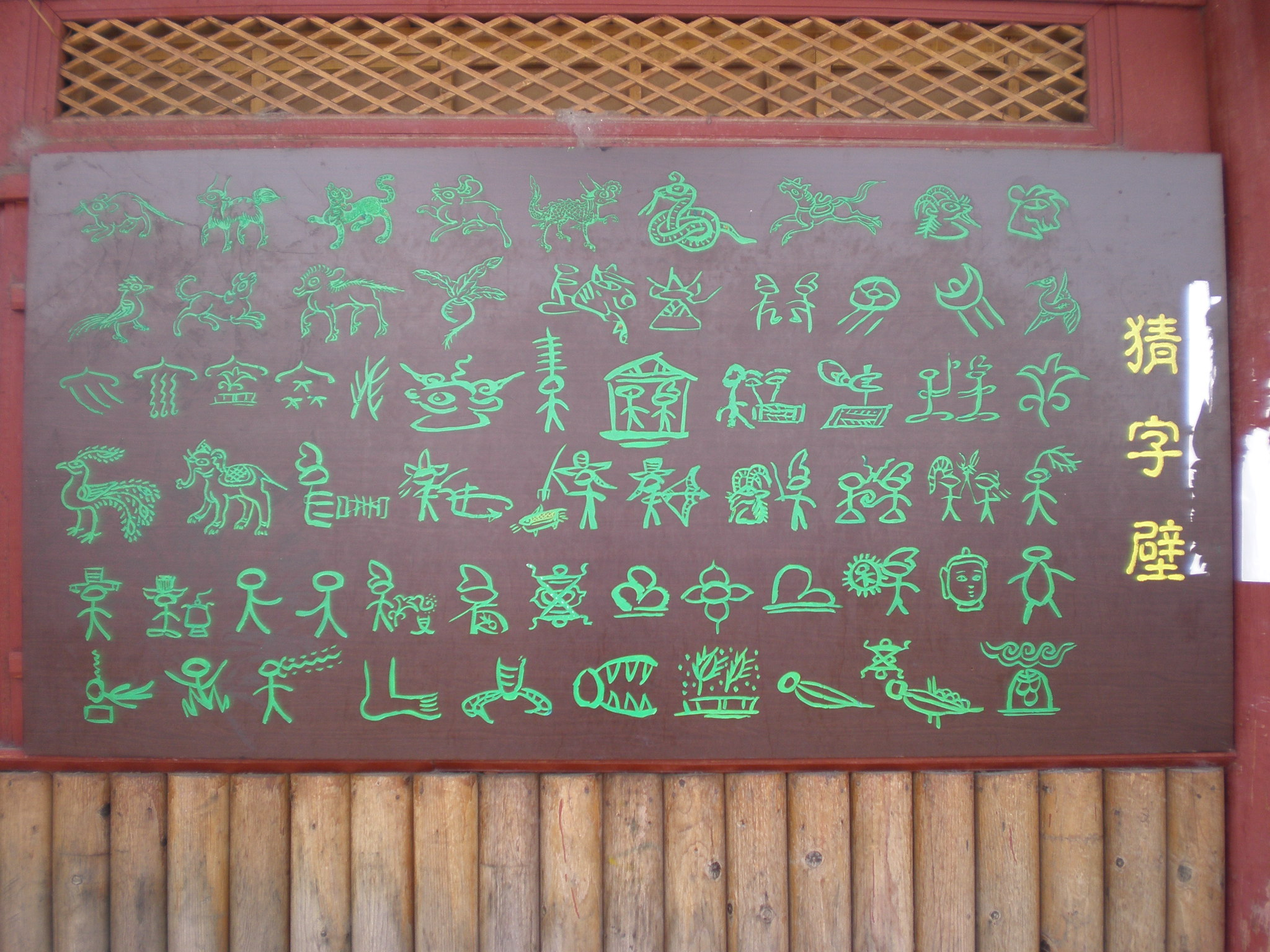 A sample of Dongba script found on the wall of the Lijiang TianYuLiuFang Culture Industry Development Co., Ltd. in the Old Town of Lijiang, Yunnan.